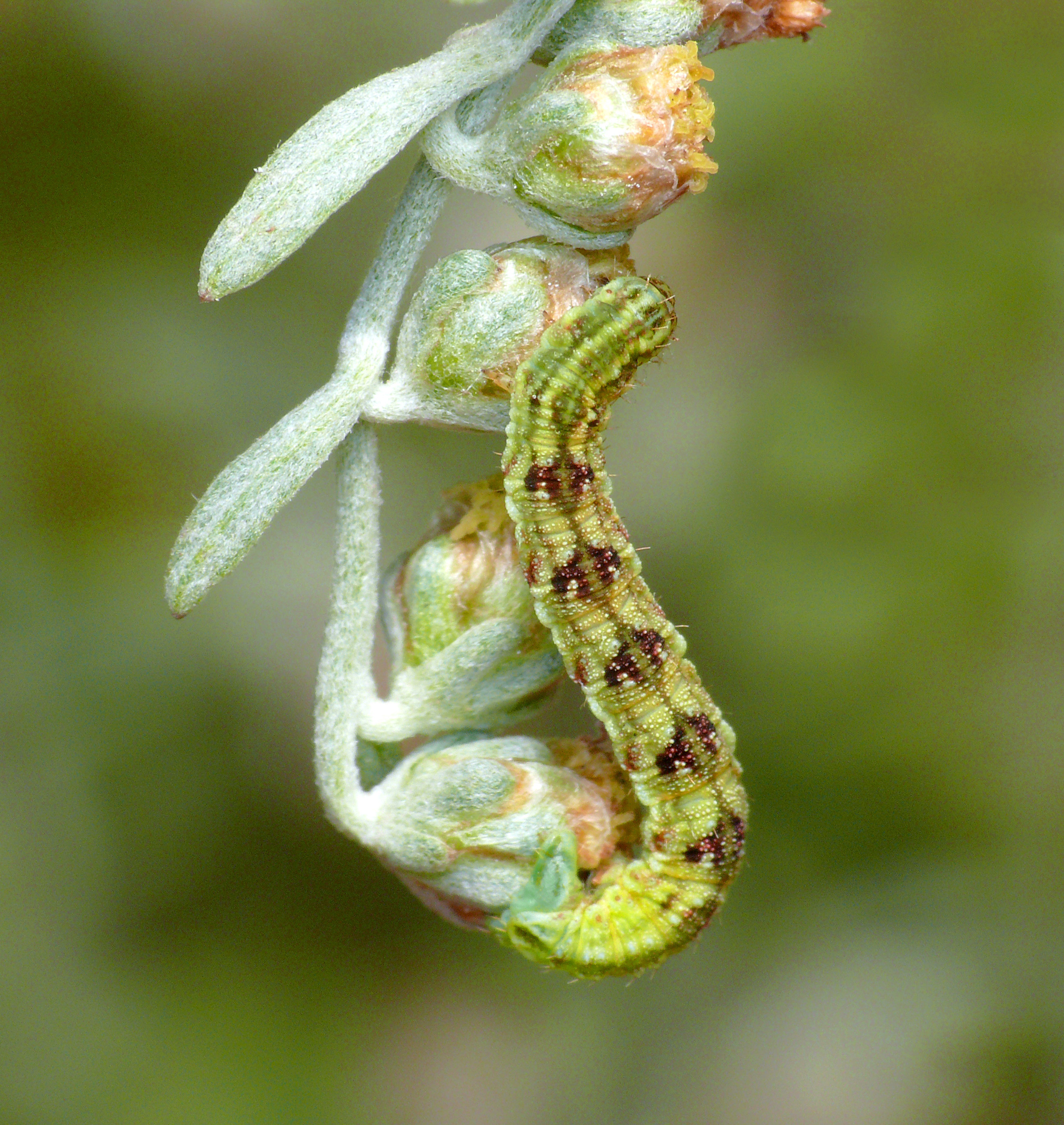 Swept from Wormwood, Artemisia absinthium, on brownfield site in the West Midlands, early September. Imago reared.